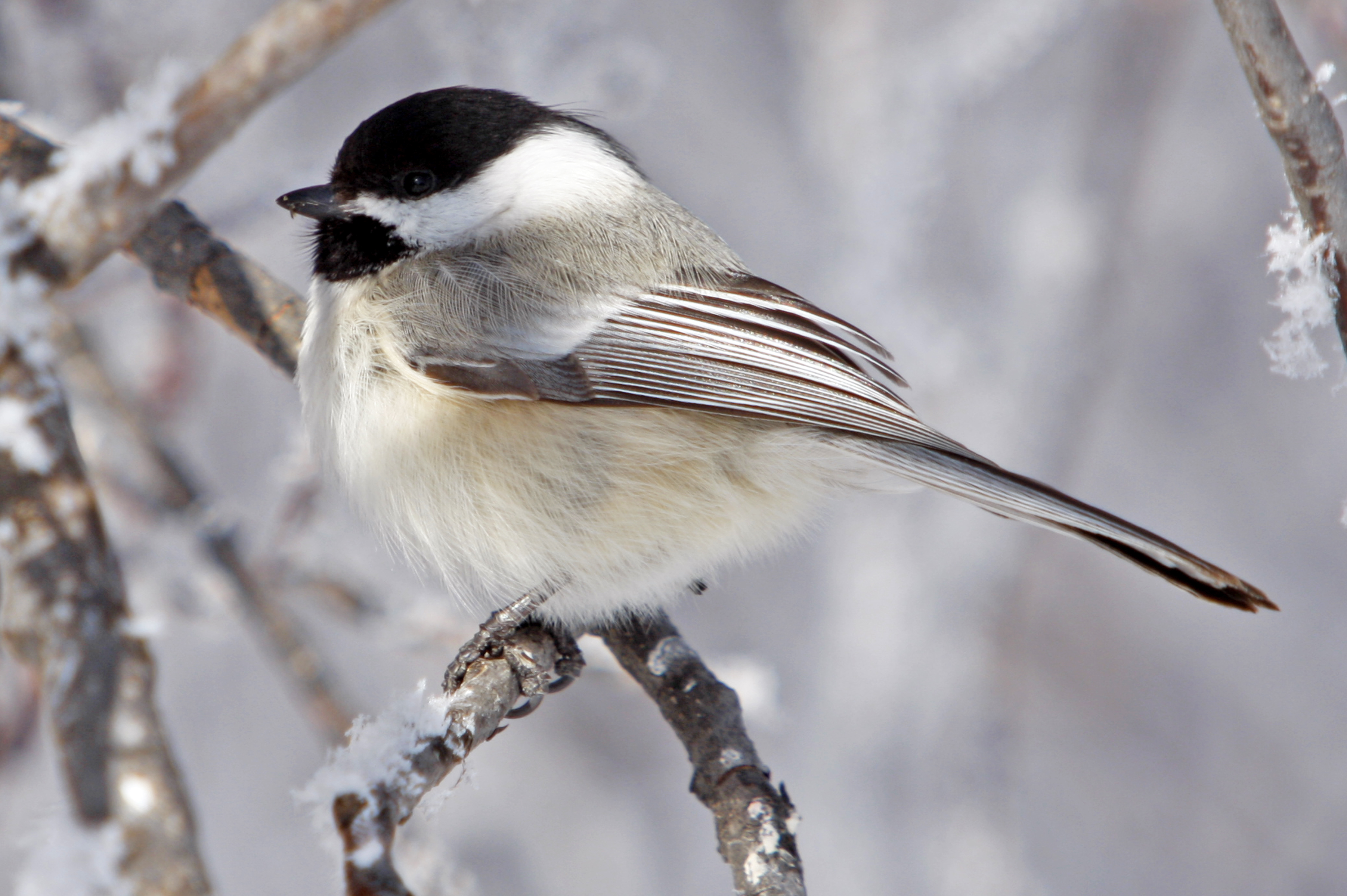 A black-capped chickadee is spotted one wintry morning at Rocky Mountain Arsenal National Wildlife Refuge. Photo Credit: USFWS / John Carr